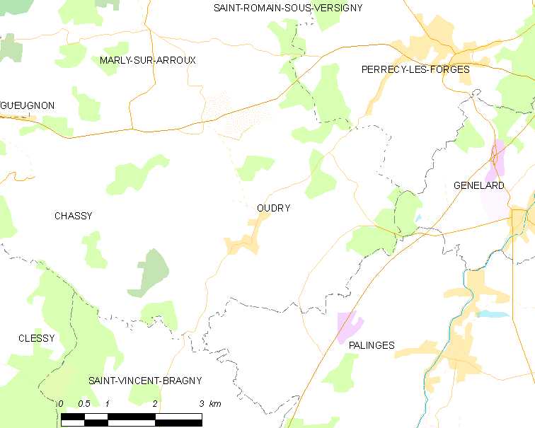 Map of French municipality